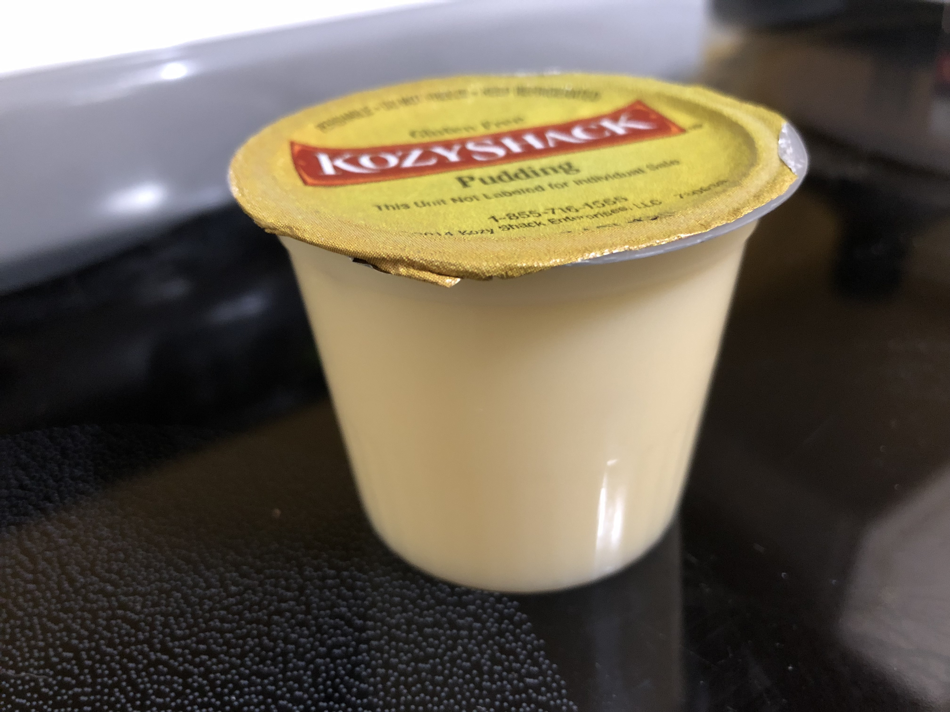 An unopened cup of Kozy Shack Tapioca pudding in the Franklin Farm section of Oak Hill, Fairfax County, Virginia